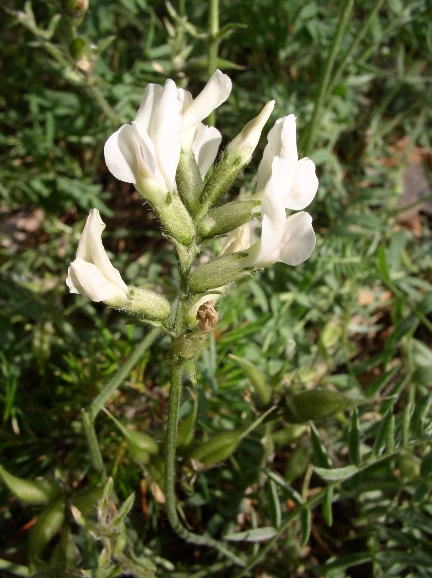 Oxytropis campestris inflorescence in Punkaharju, Finland.